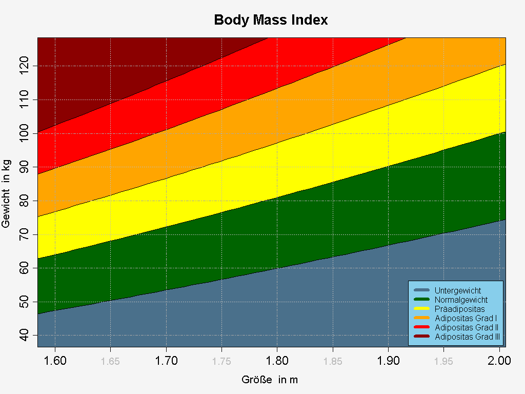 graph that illustrates the body mass index and its classes